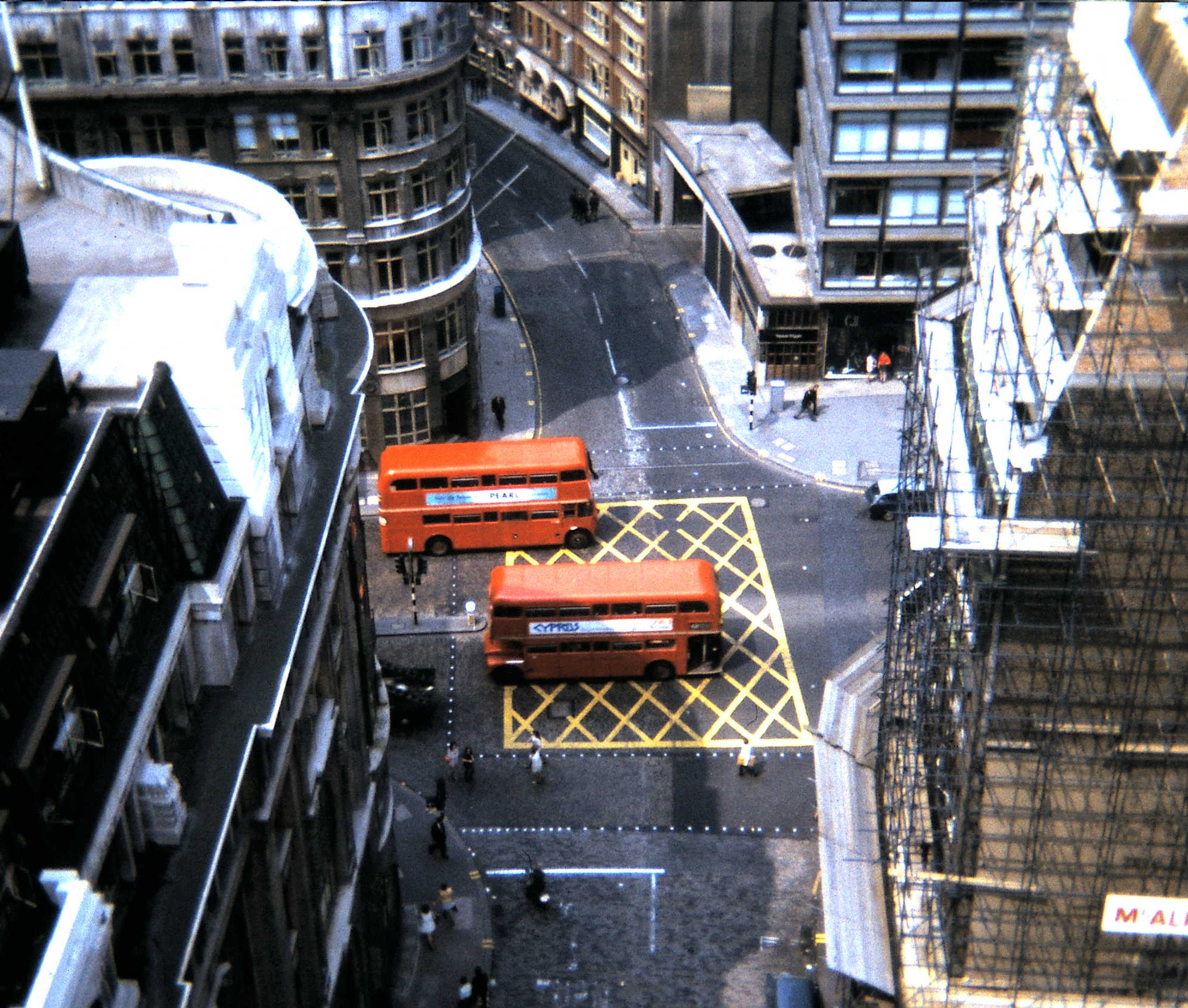 King William Street from The Monument, Data from Geograph: Description: Two Routemaster buses crossing on the northern end of London Bridge as seen from The Monument. Taken with an Instamatic camera sometime in 1969. ICBM: 51.510059157669, -0.086457234318134 Location: (about 1 km from) near to City of London, Great Britain.